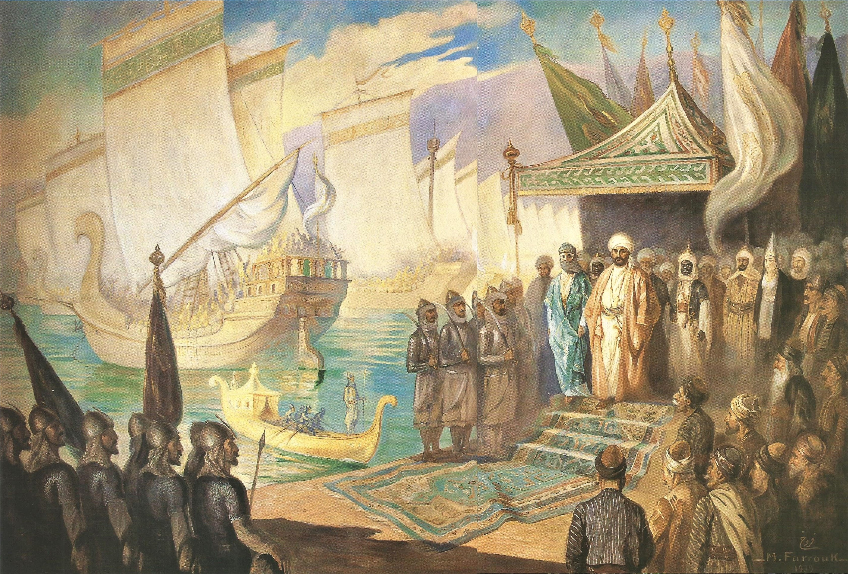 Muʿāwiyah ibn Abī Sufyān taking to the sea before the conquest of Cyprus.